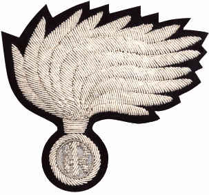 Hard cap insignia of "Arma dei Carabinieri" (Italian military police).